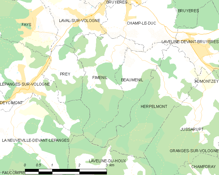 Map of French municipality Fiménil